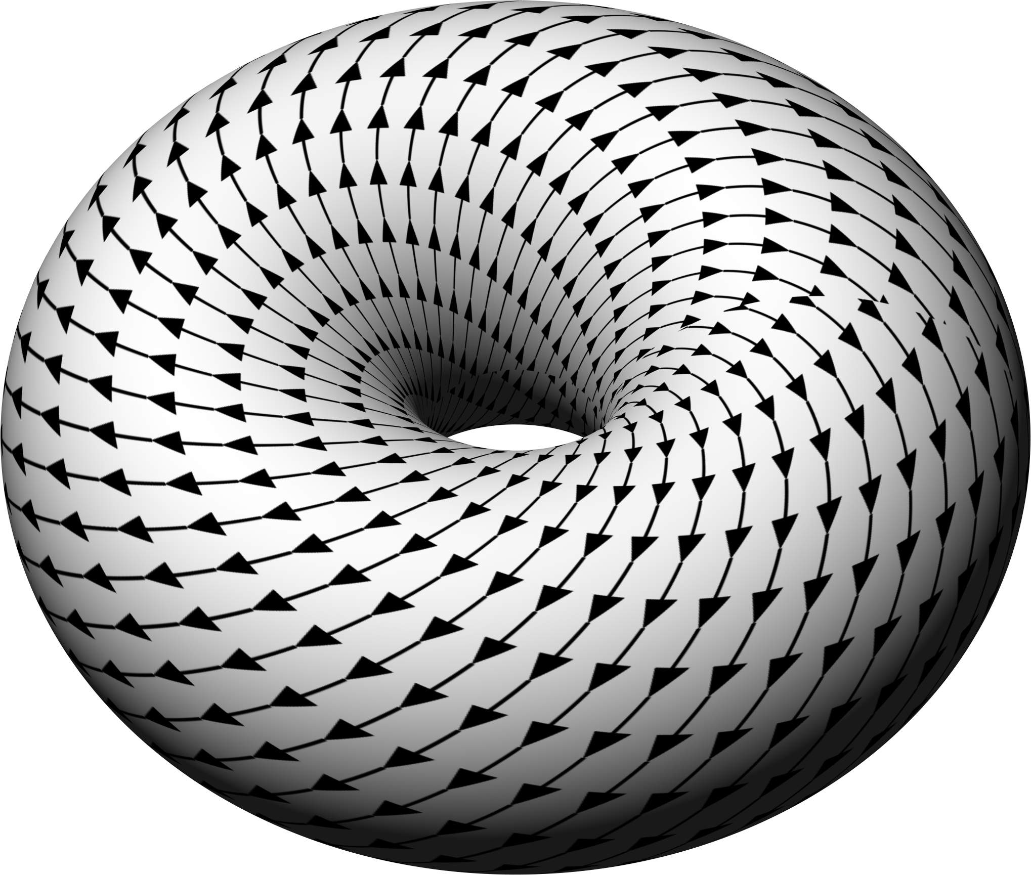 A continuous tangential vector field on the surface of a torus. Made using Xfig, POV-Ray and Gimp. :-)